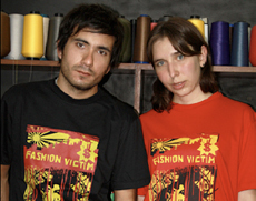 La Alamada